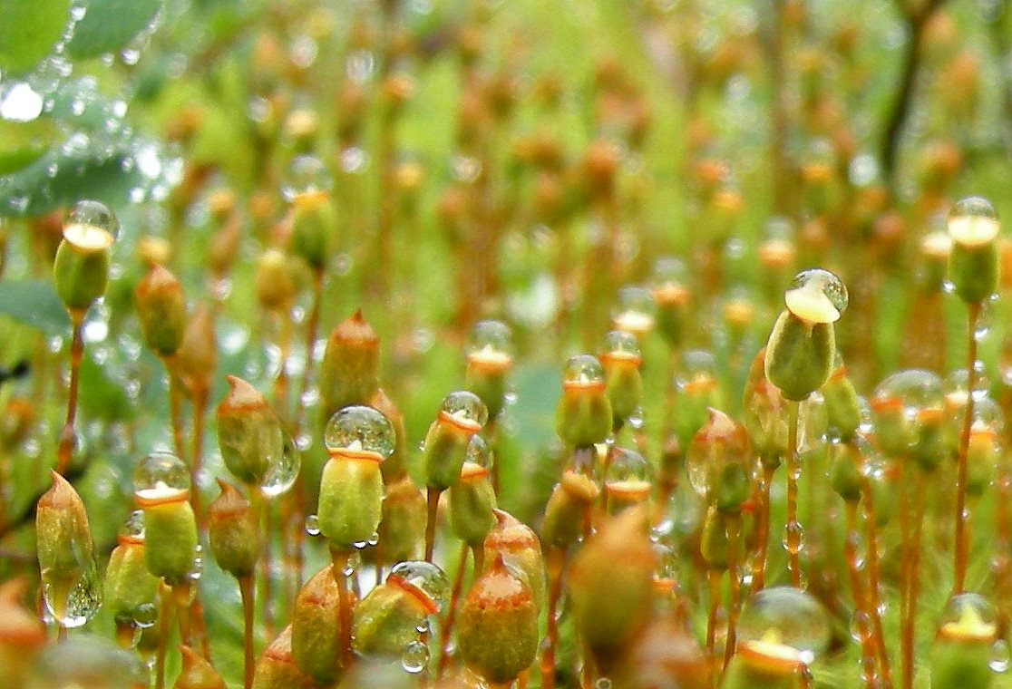 Haircap moss or hair moss